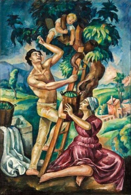 Picking figs